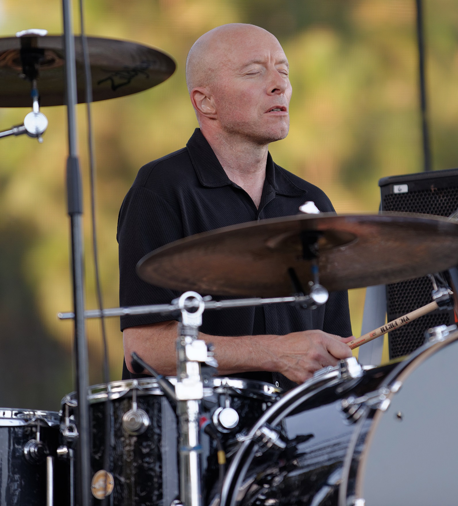 Jerry Augustyniak performing with 10,000 Maniacs at Pittsford Park in Lake Forest in 2015